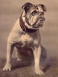 Bulldog "Handsome Dan" (1889-1898) Mascot of Yale University